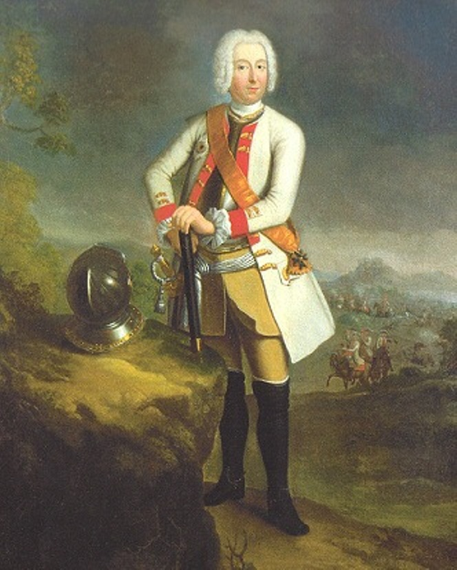 Portrait of Adolf Friedrich von der Schulenburg (1685-1741)